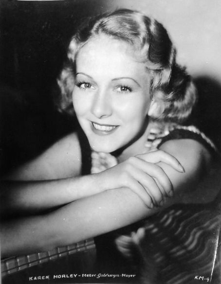 Promotional photograph of actress Karen Morley (1934)